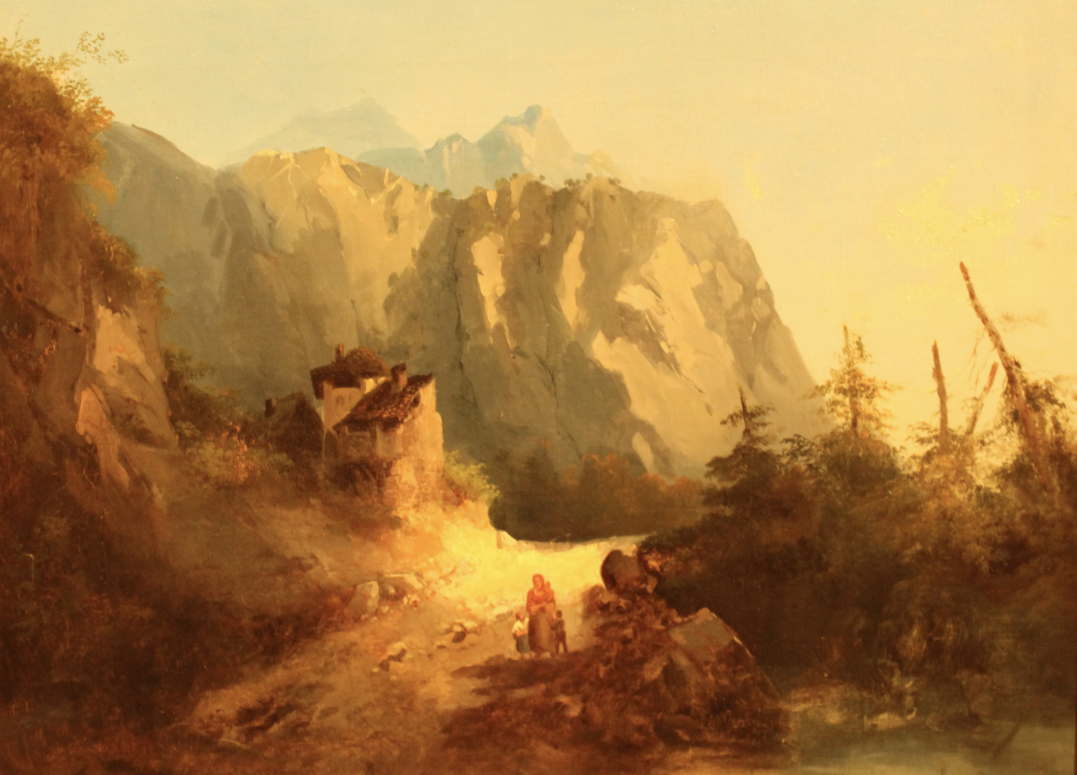 Photo of Alpine Mountain Scene by Alexandre Calame from Widener University Art Museum Alfred O. Deshong Collection